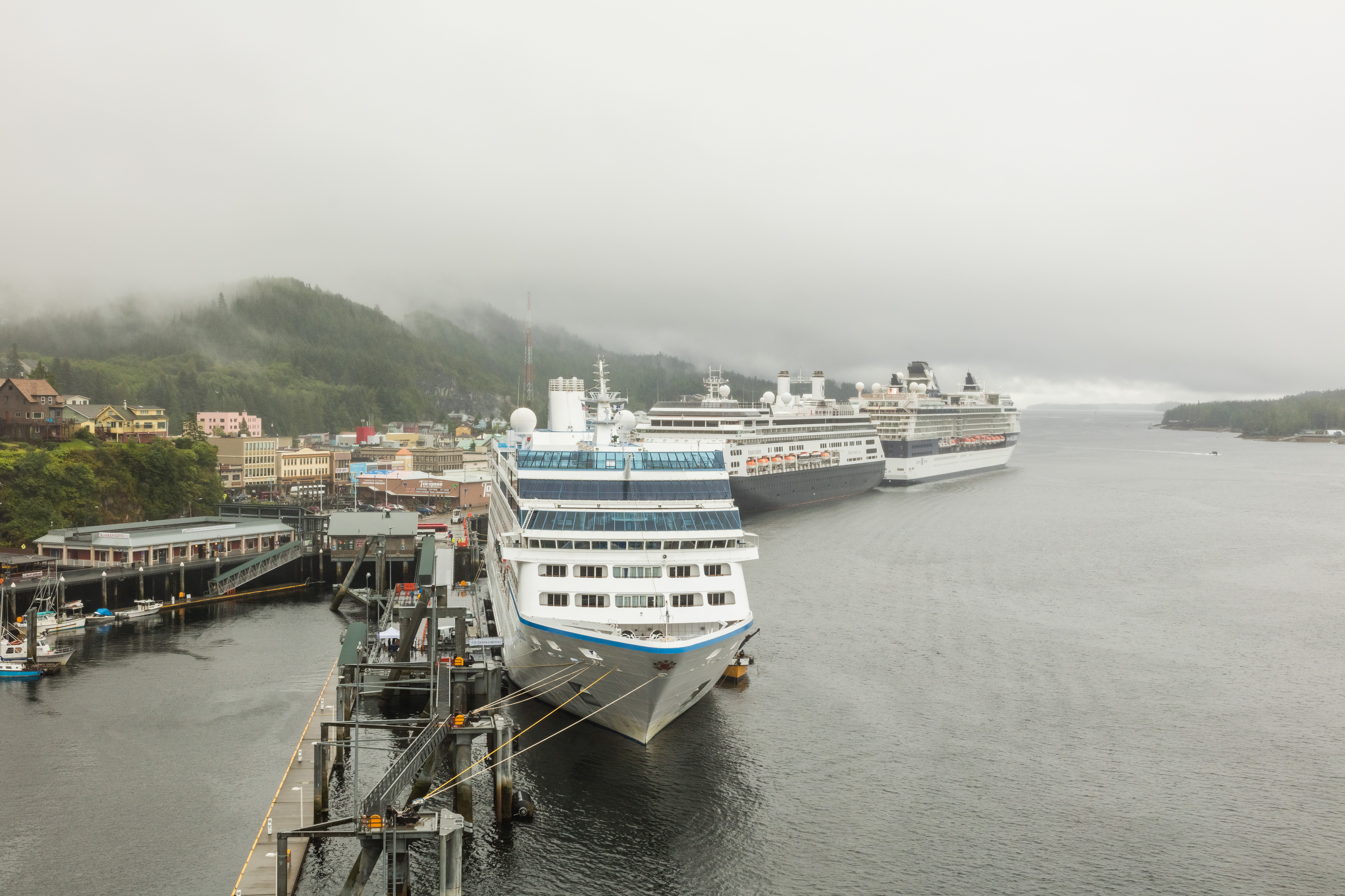 (Front to back) The MS Regatta, MS Amsterdam, and Celebrity Millennium cruise ships in Ketchikan, Alaska, United States